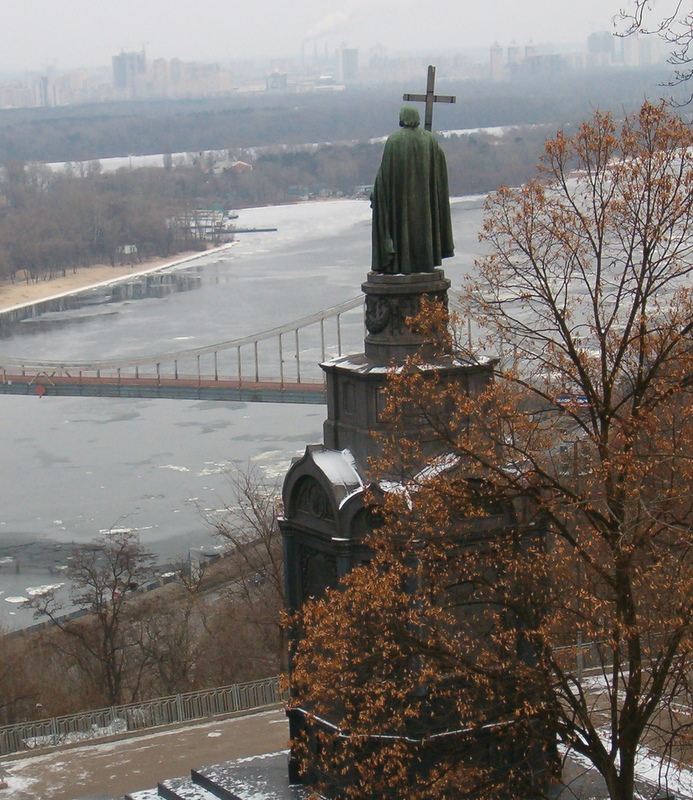 St_Volodymyr_statue_in_Kyiv